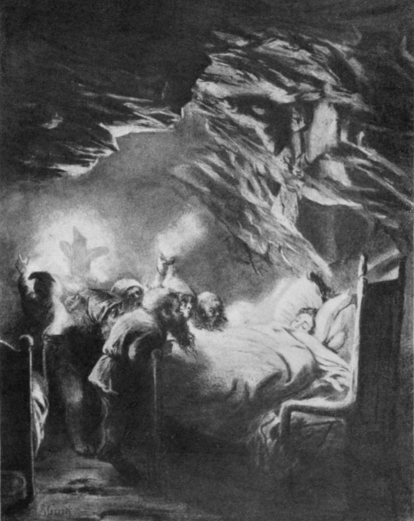 Charcoal drawing (1866/67) by poet and painter August Corrodi (1826 - 1885) from Zürich.